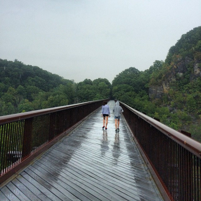 Rainy walk, er, hike back over the Rosendale Trestle, with Joppenburgh Mtn (mini mountain) on the right.